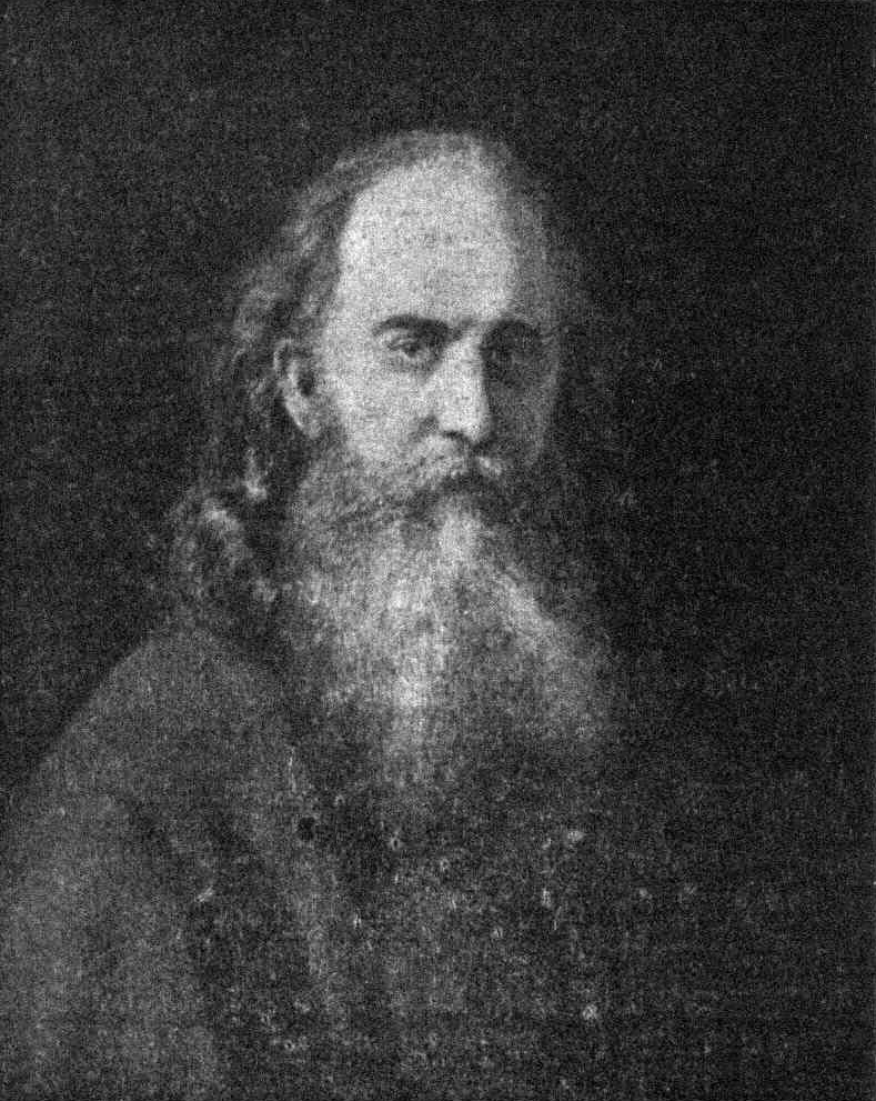 Josef Hoffmann (Joseph Hoffmann; 1831–1904), Austrian painter